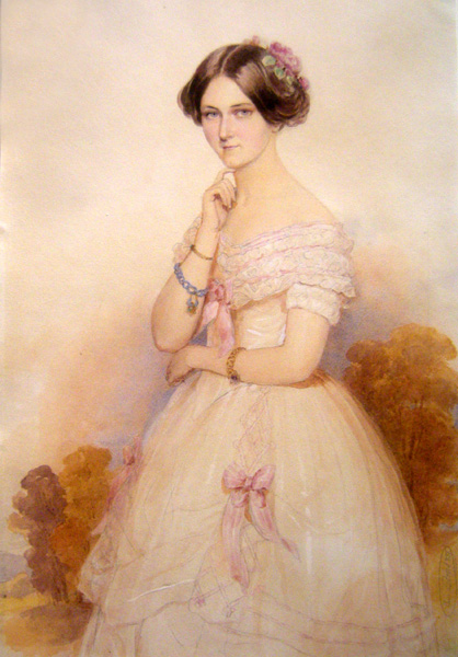 Carola (Karoline), Princess Vasa of Sweden and future Queen of Saxony age 17 by Emanuel Thomas Peter